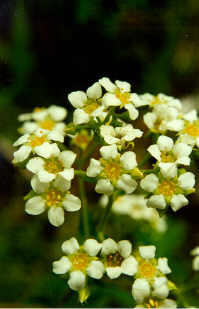 Boykinia major, Clearwater National Forest, USA